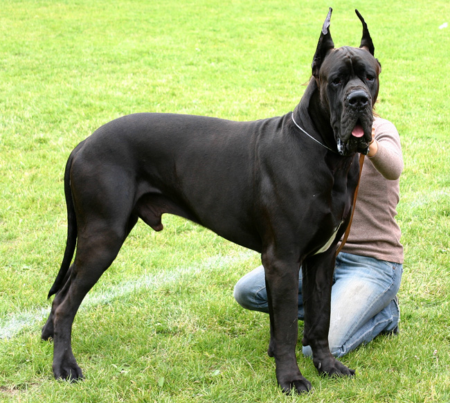 An adult male black (heavy type) Great Dane dog with cropped ears.